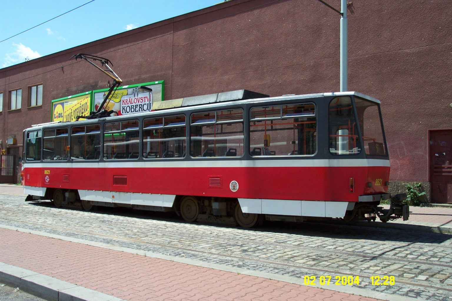 Tram type T6A5 in station Smíchovské nádraží, Prague